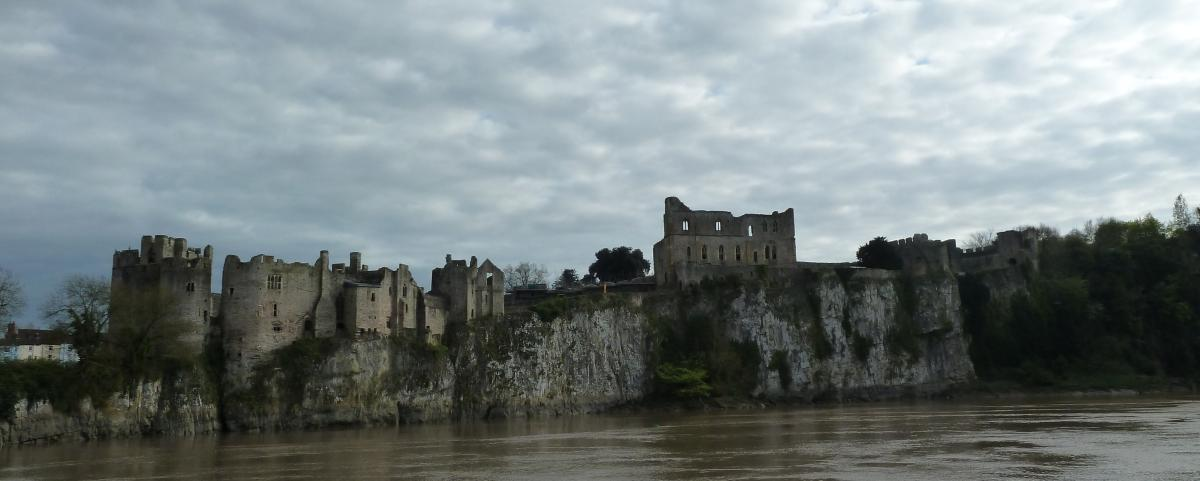 Chepstow castle, view of the North aspect from across the river Wye.